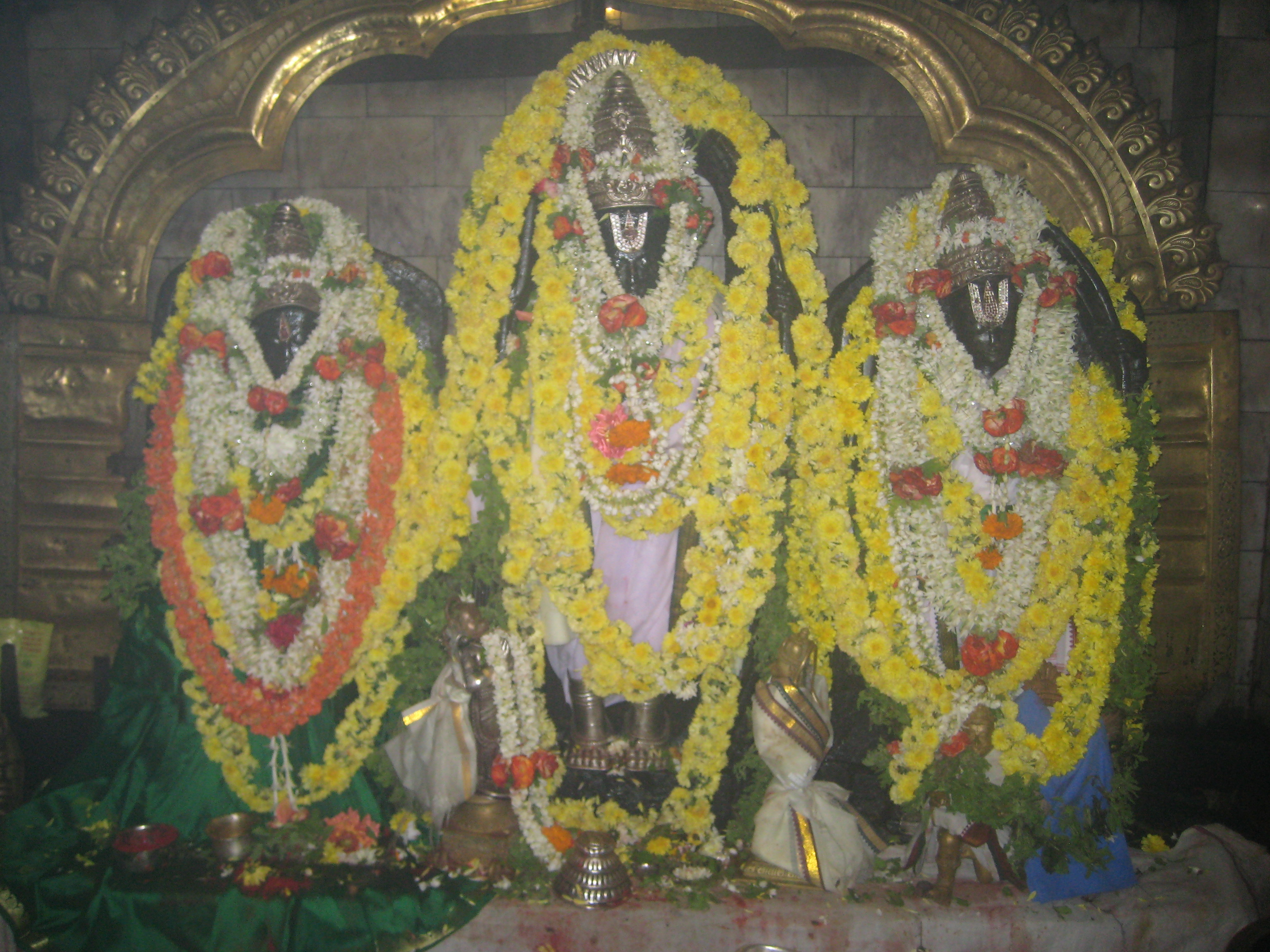 This is the picture of Sri. Kodanda Rama at Chunchanakatte.